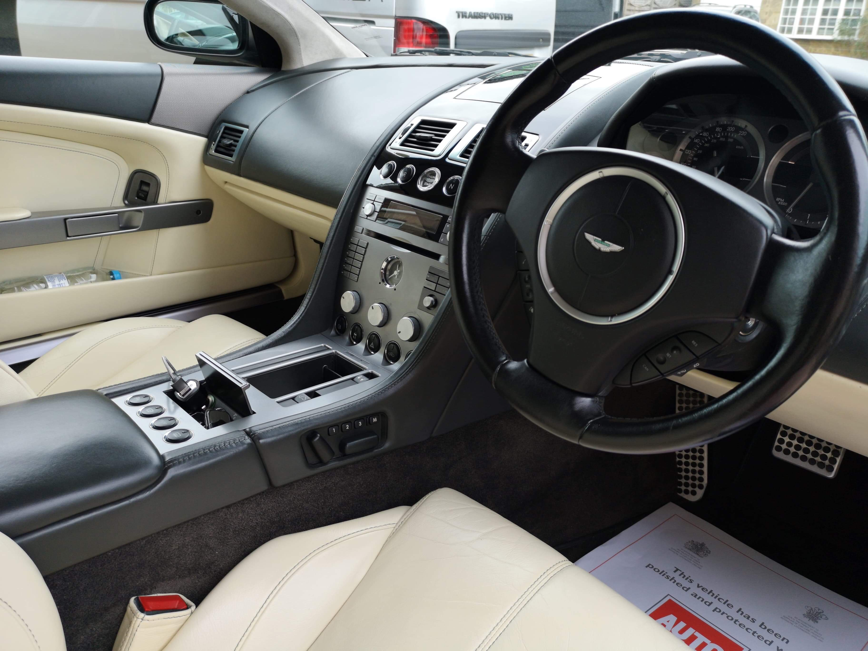 Revised 2007 Volante interior.